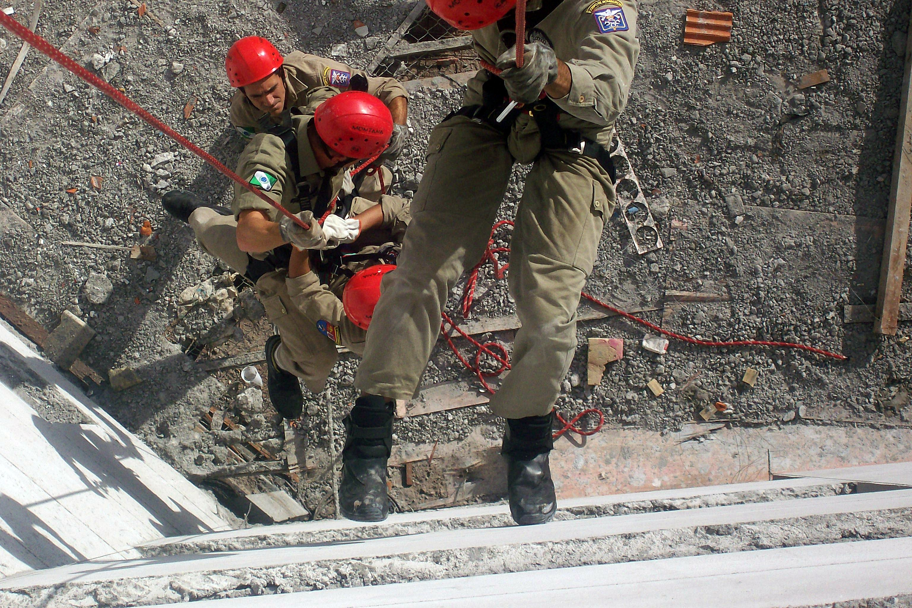 Abseiling in Brazil - Londrina - PR.